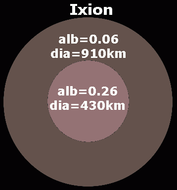 The true diameter of dwarf planet candidate 28978 Ixion depends on the albedo (the fraction of light that it reflects). You can have a smaller body that is more reflective or you can have a larger body that is less reflective. The Spitzer Space Telescope has estimated Ixion to have a diameter of 650 (+260/-220) km with an albedo of 0.12 (+0.14/-0.06). Any ice dwarf with a diameter greater than 400 km is likely spherical.